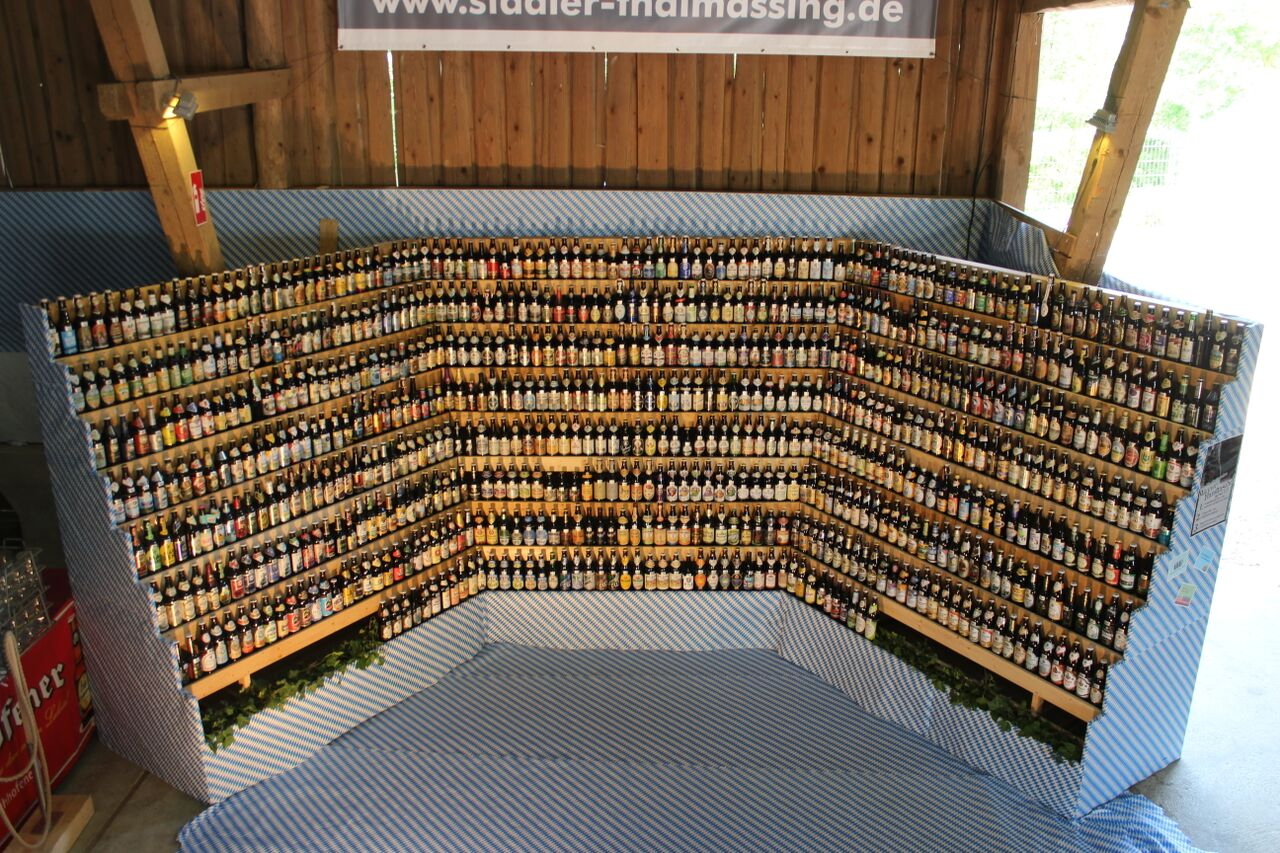 Beershelf